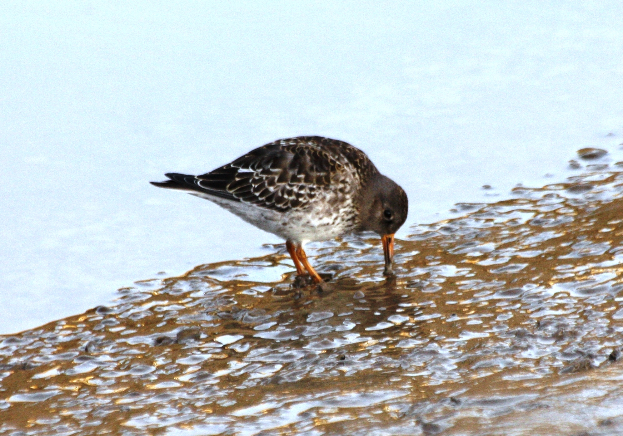 Image of Calidris maritime grazing in the inner Adventfjorden watten-area (tidal mudflats). Longyearbyen, Spitsbergen.